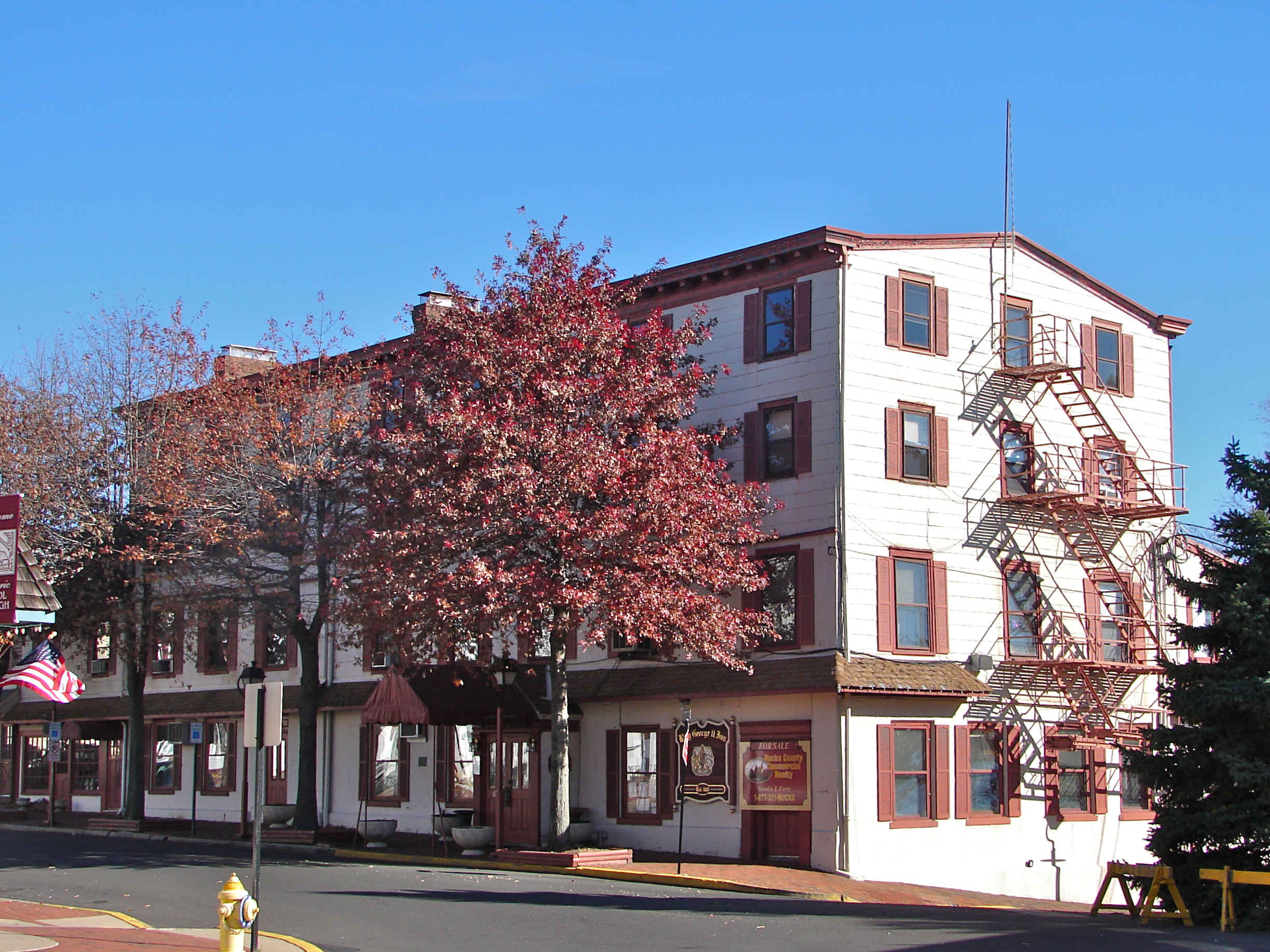 King George II Inn in Bristol, Pennsylvania. First built about the time of King George II. Later known as the Delaware Inn. On the Delaware River in the NRHP Bristol Historic District.